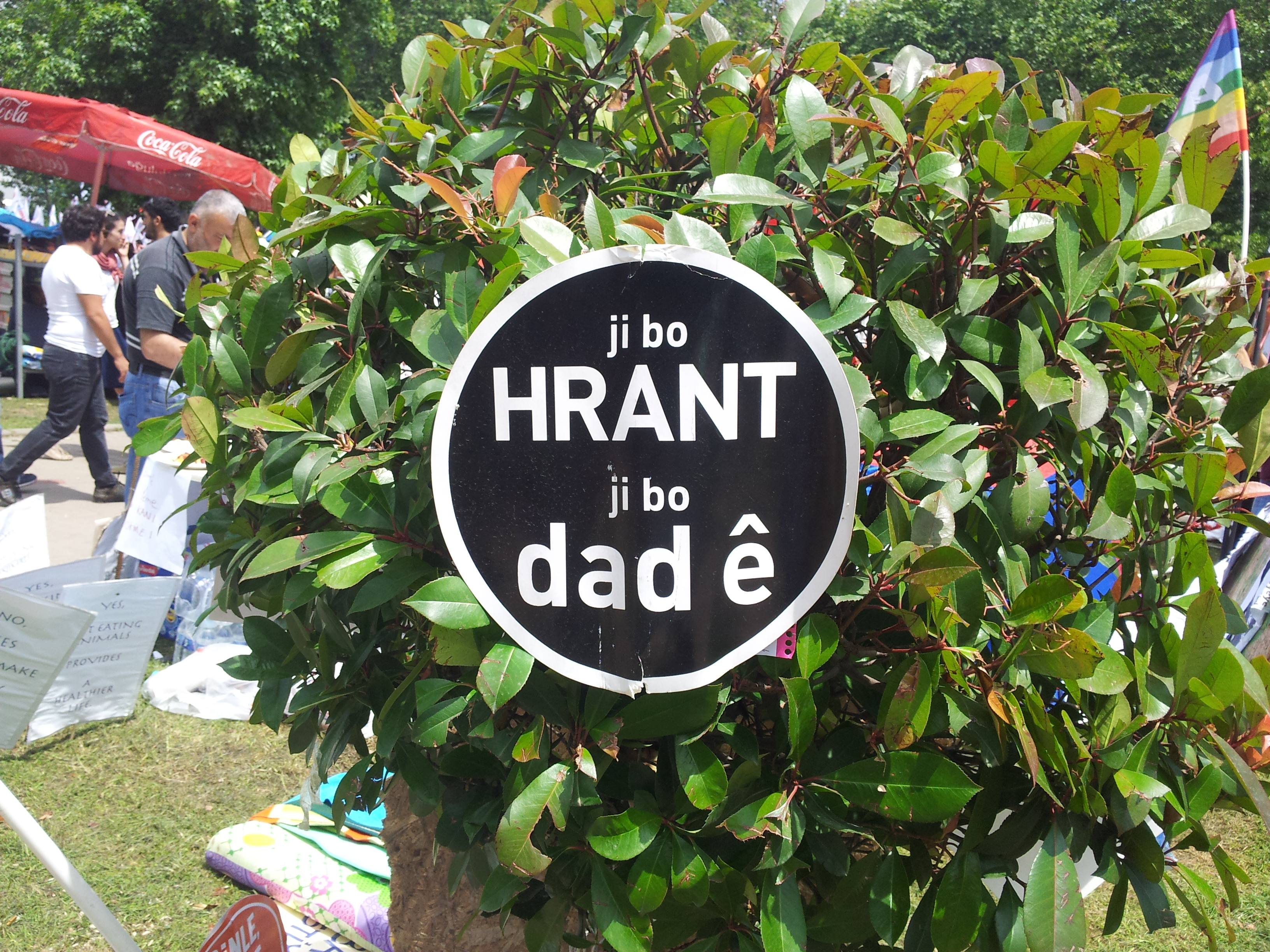 A banner in Kurdish in Gezi Park during #occupygezi: "Justice for Hrant (Ji Bo Hrant, Ji Bo Dade ê)" Hrant refers to the Turkish-Armenian columnist slain in 2007.